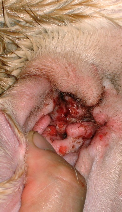 Taken by self